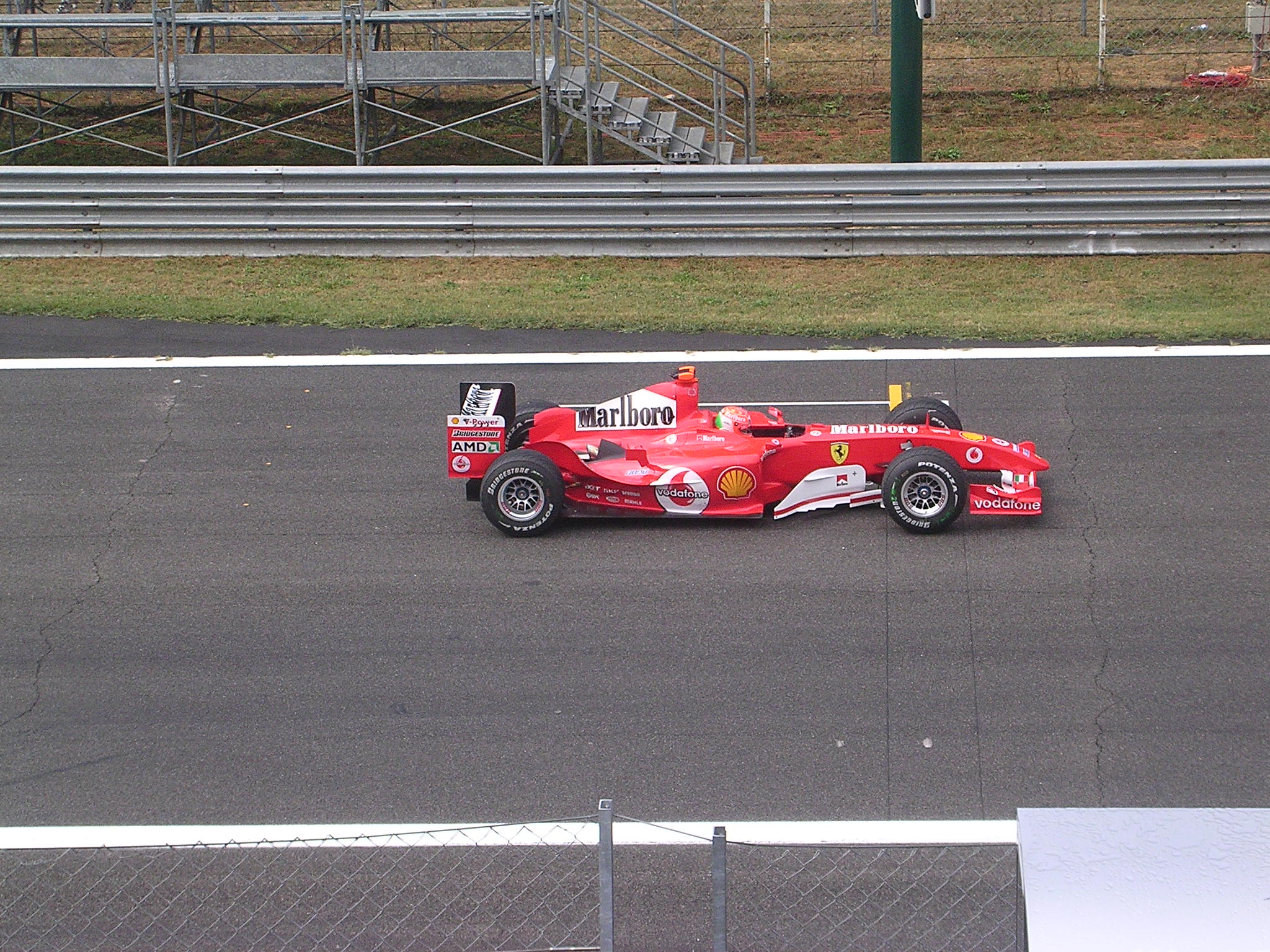 The Autrodomo Nazionale of Monza (italy) during a race in september 2004